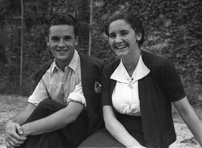 Josefa "Pepita" Embil, the future mother of tenor Plácido Domingo and a zarzuela star, with Imanol Valdes in Le Belloy near Saint-Germaine, France in 1938. Both singers were members of the Basque national choir, Eresoinka, at the time.